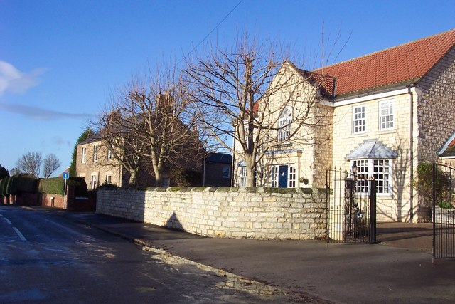 Old and new houses in Bickerton Good examples of new-build and traditional village house styles.